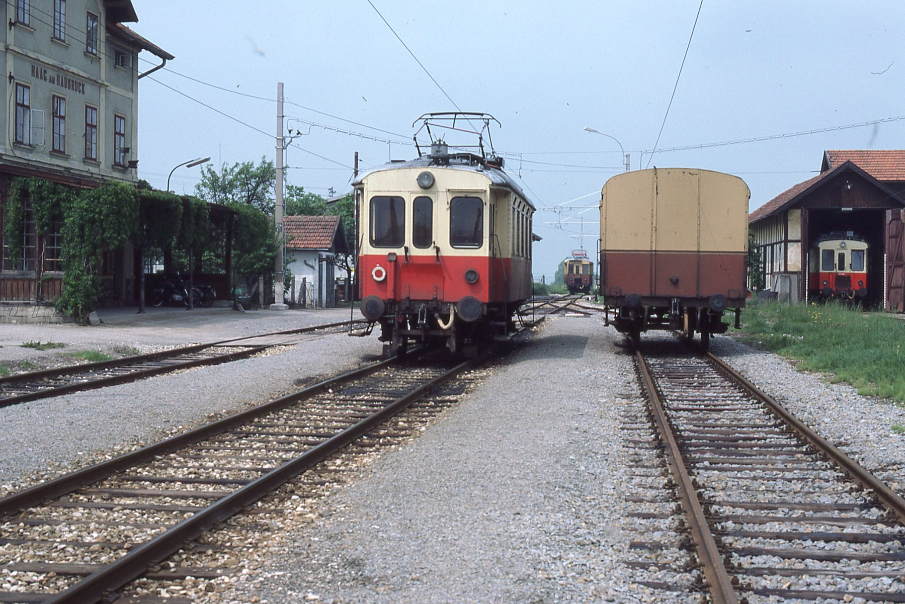 Lokalbahn Lambach - Haag, railcar 24 102 at Haag am Hausruck station. The station building to be seen on the left side was demolished in 1991.